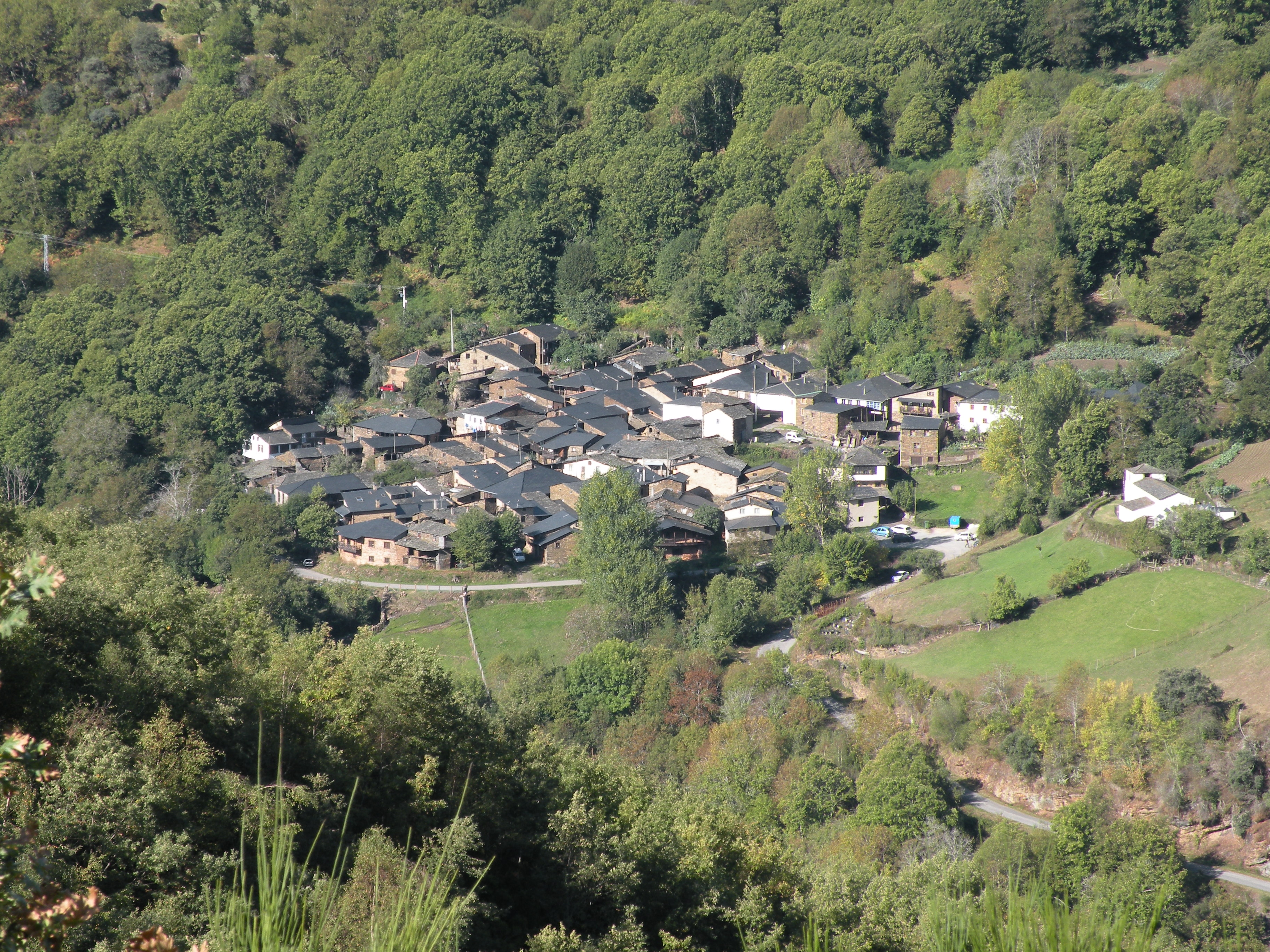 Seceda é un lugar da parroquia de Seceda, no concello lucense de Folgoso do Courel na comarca de Quiroga.